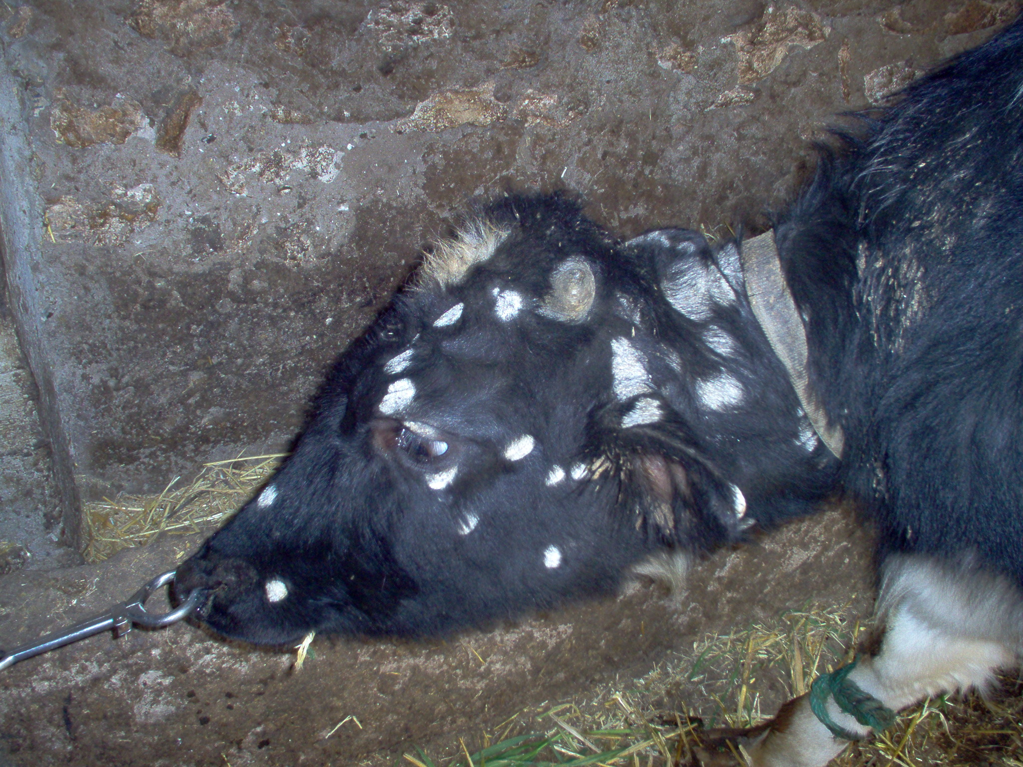 Walon: Tiesse d' on vea toplin d' dieles